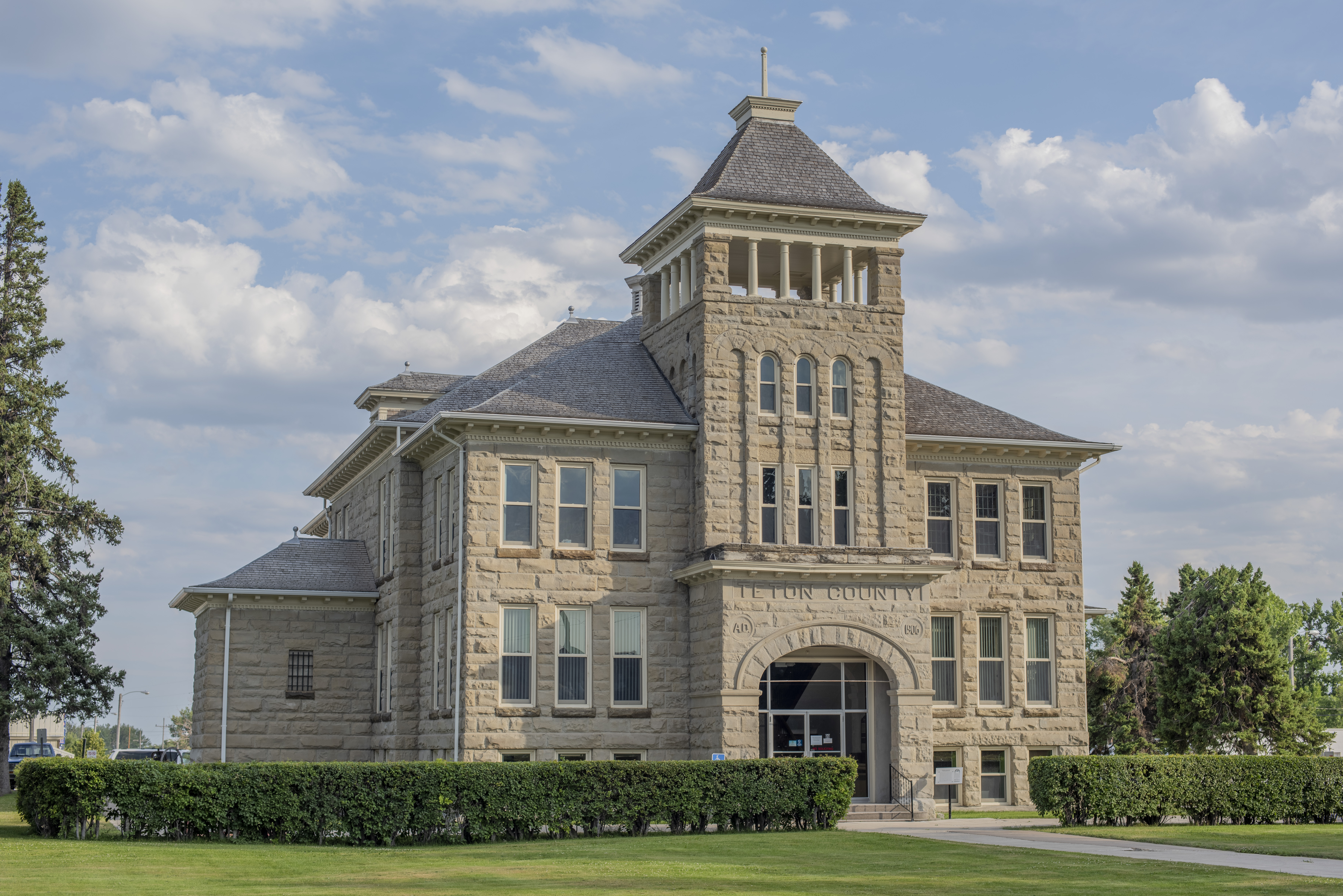 Photograph of the Teton County Courthouse in Choteau Montana. Image taken in July 2020.